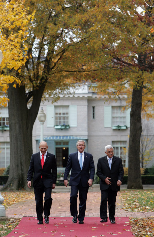 President George W. Bush, Prime Minister Ehud Olmert, left, of Israel, and President Mahmoud Abbas of the Palestinian Authority in Annapolis, Maryland